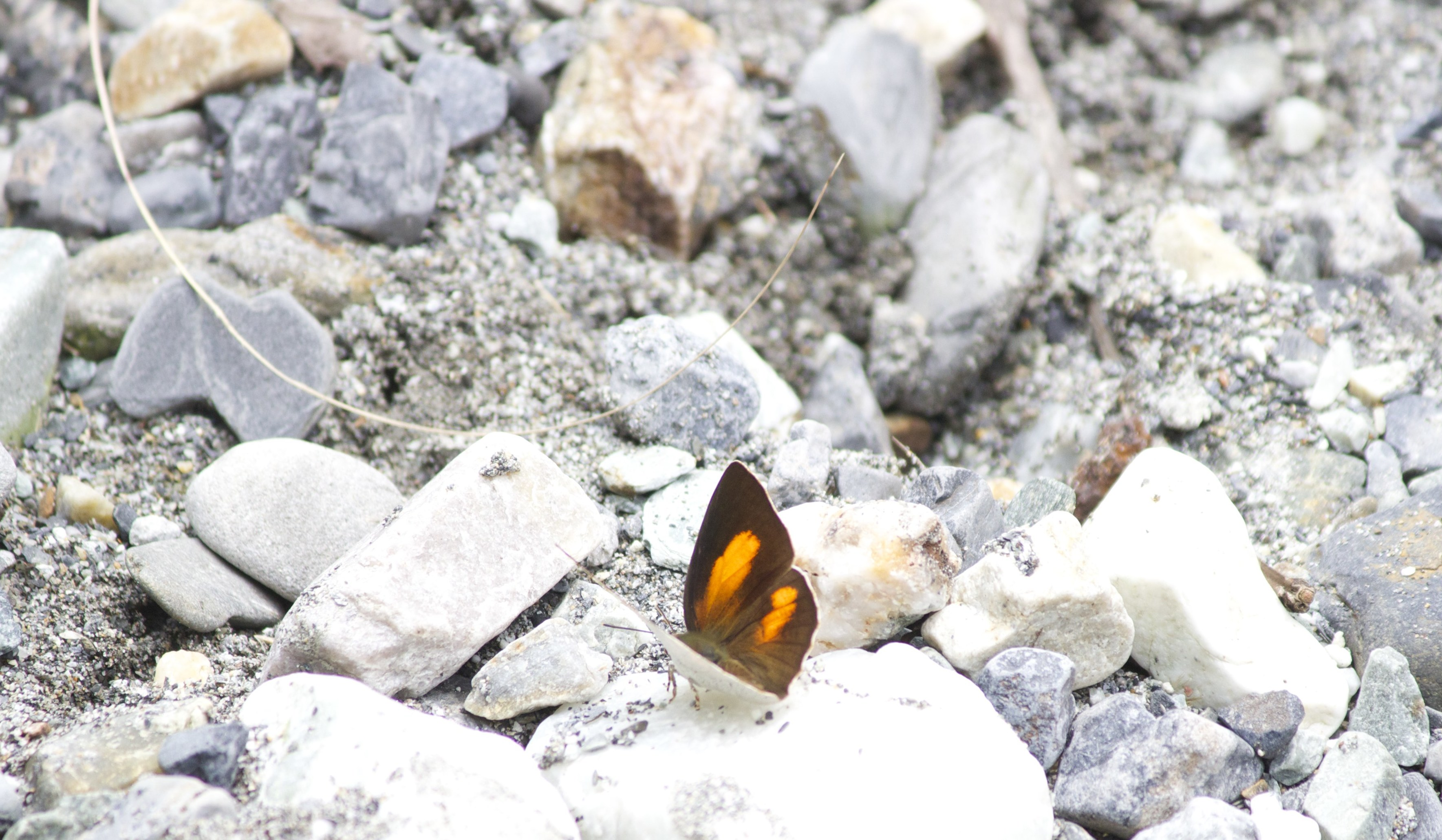 This image was taken in the project Wiki Loves Butterfly. Partially open wing position of Curetis bulis Westwood, 1851 – Bright Sunbeam